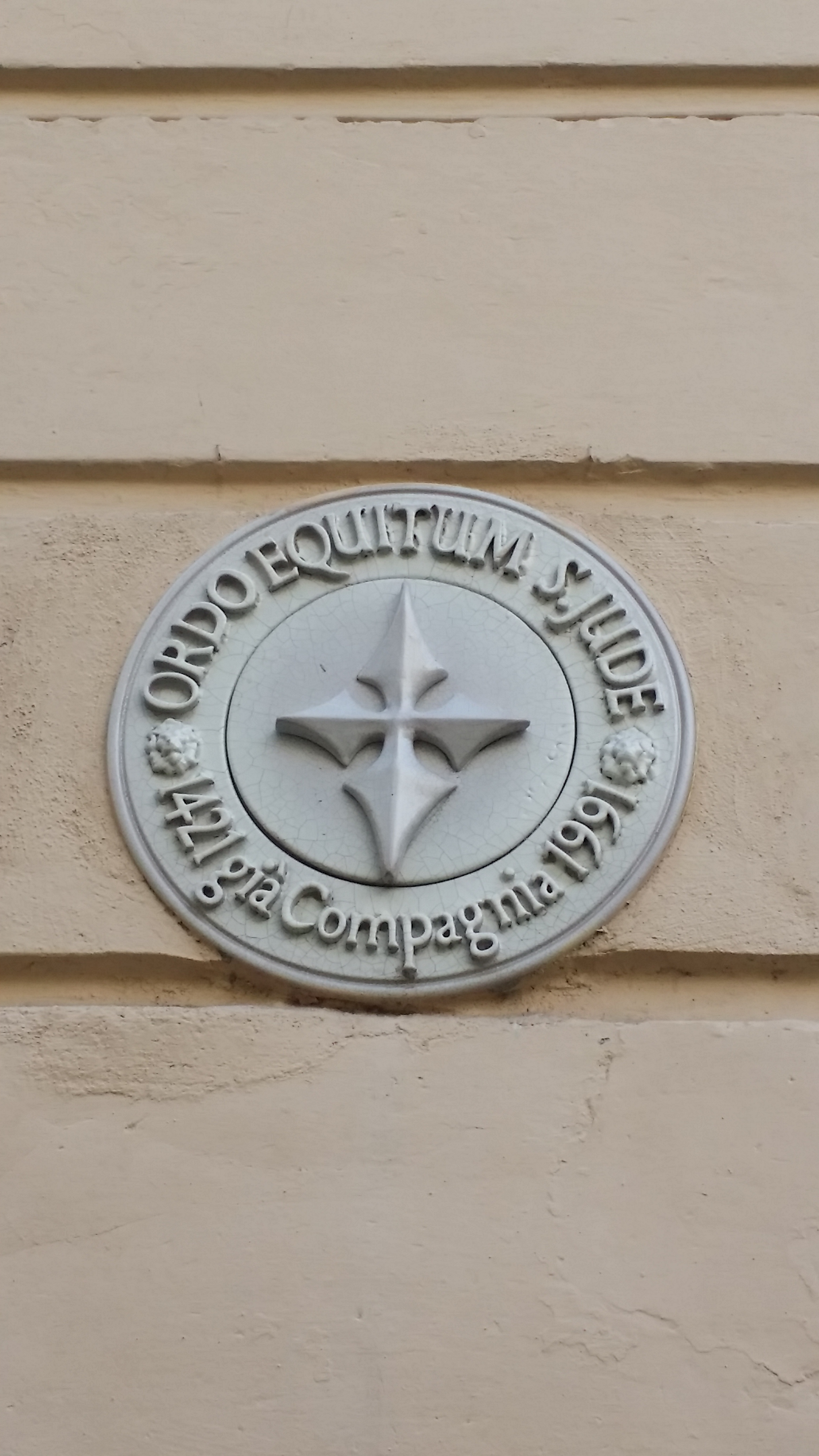 coat of arms representing the knights of San Giuda Taddeo